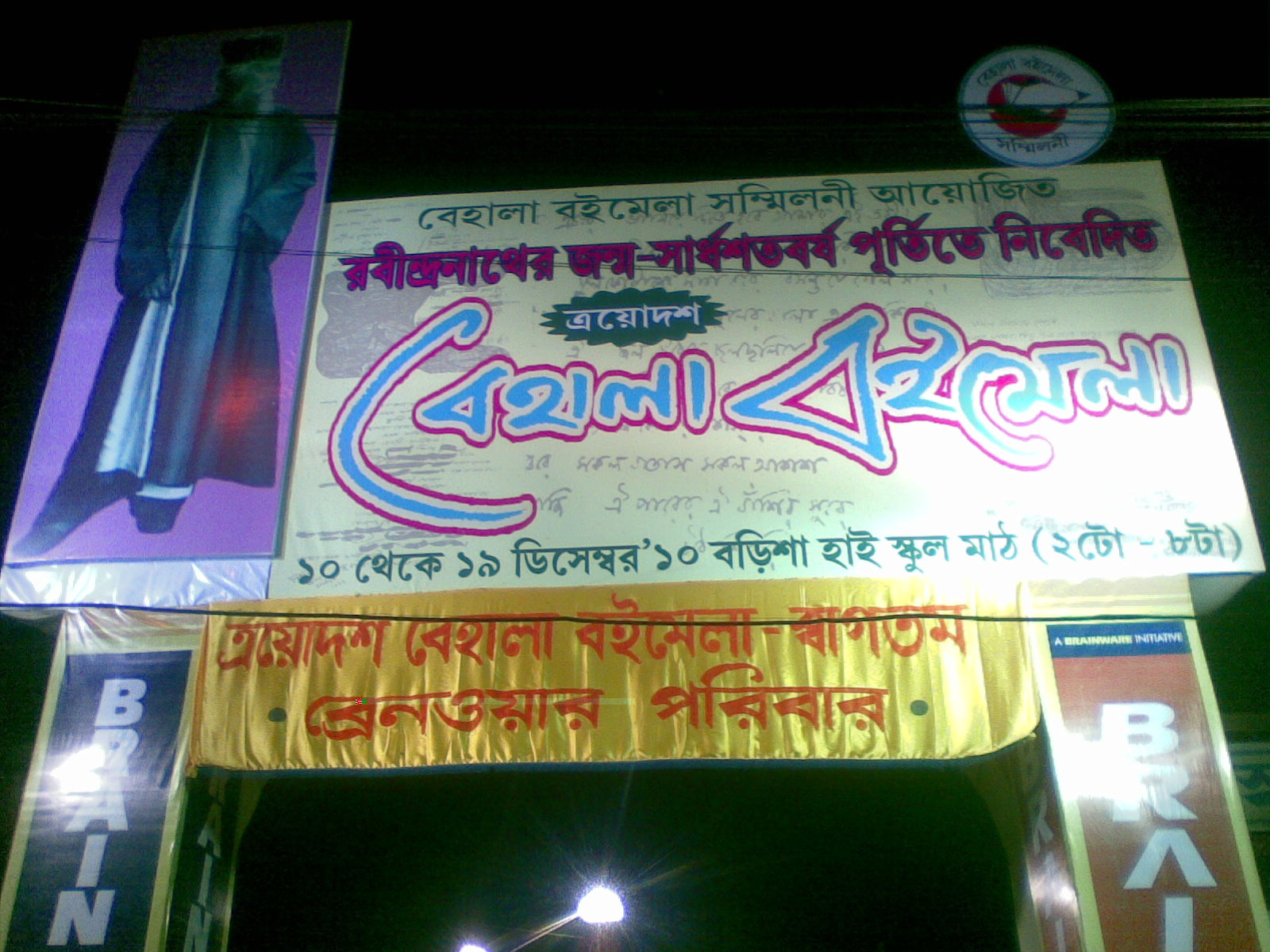 Entrance of the 13th Behala Book Fair held at the Barisha High School ground from 10th to 19th December 2010.